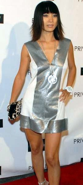 Bai Ling taken at a party for the movie Captivity